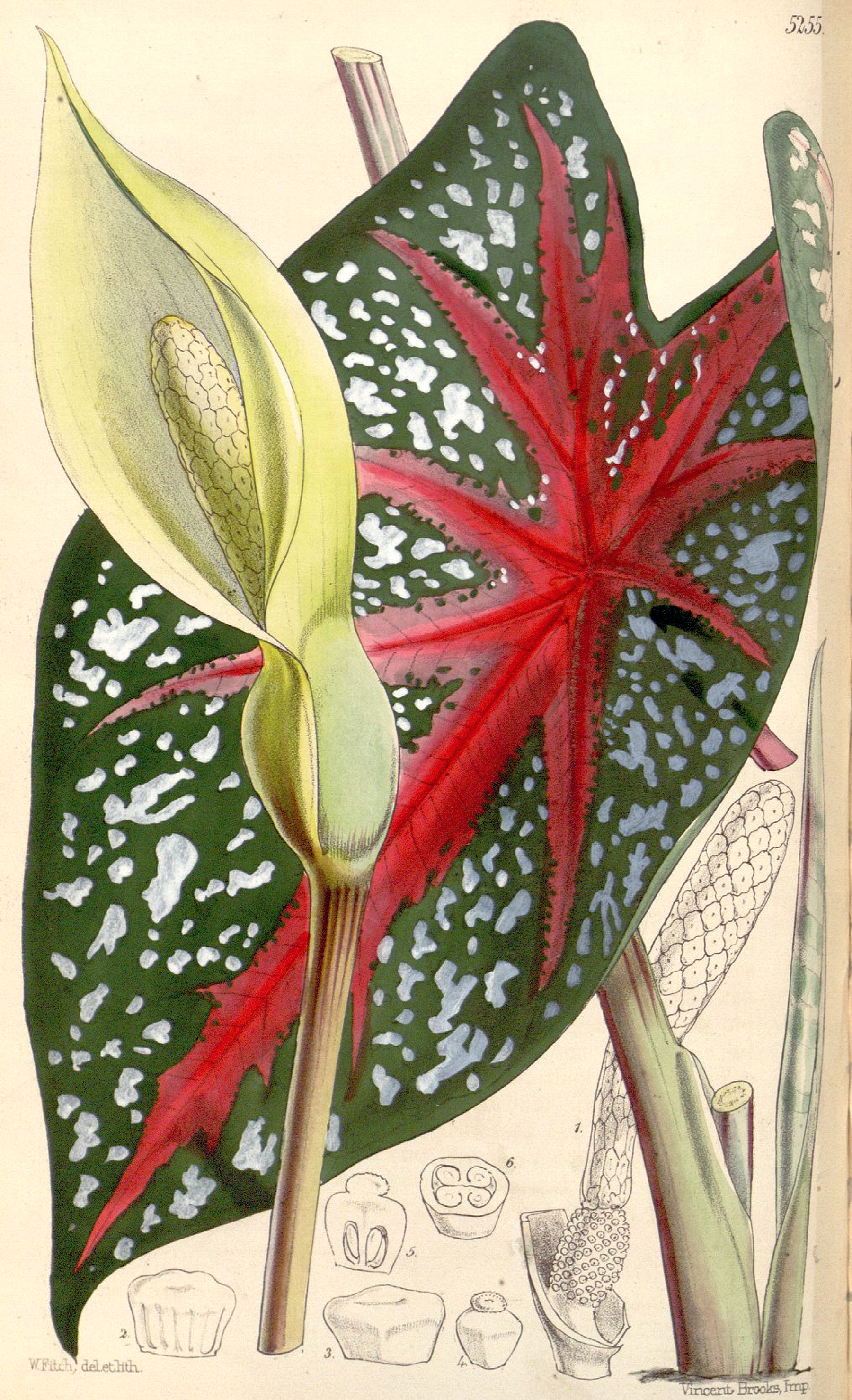 Caladium bicolor botanical drawing